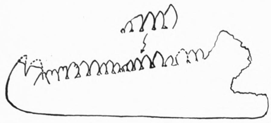 Eurypterids of the Devonian Holland Quarry Shale of Ohio. Fieldiana, Geology. Vol. 14, No. 5 (1961), Figure 43